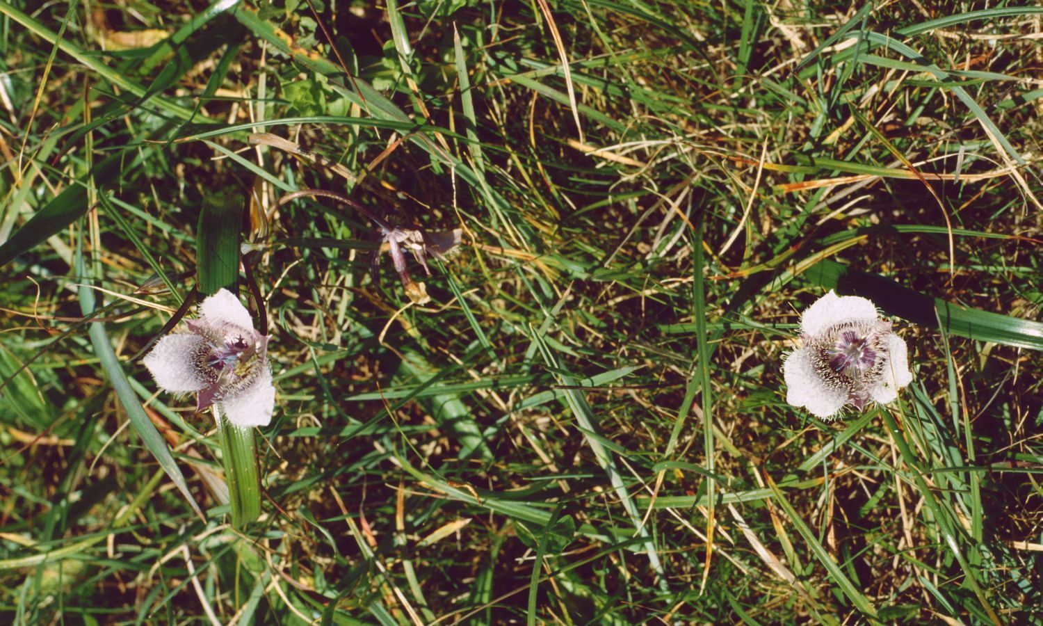 Calochortus tolmiei, Liliengewächse (Liliaceae), Calochortoideae - USA, Kalifornien/California: Point Reyes National Seashore, Chimney Rock (Marin County)